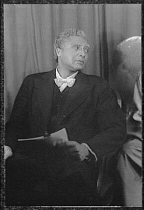 Title: Portrait of William Marshall, as "De Lawd" in "Green Pastures" Abstract/medium: 1 photographic print : gelatin silver.